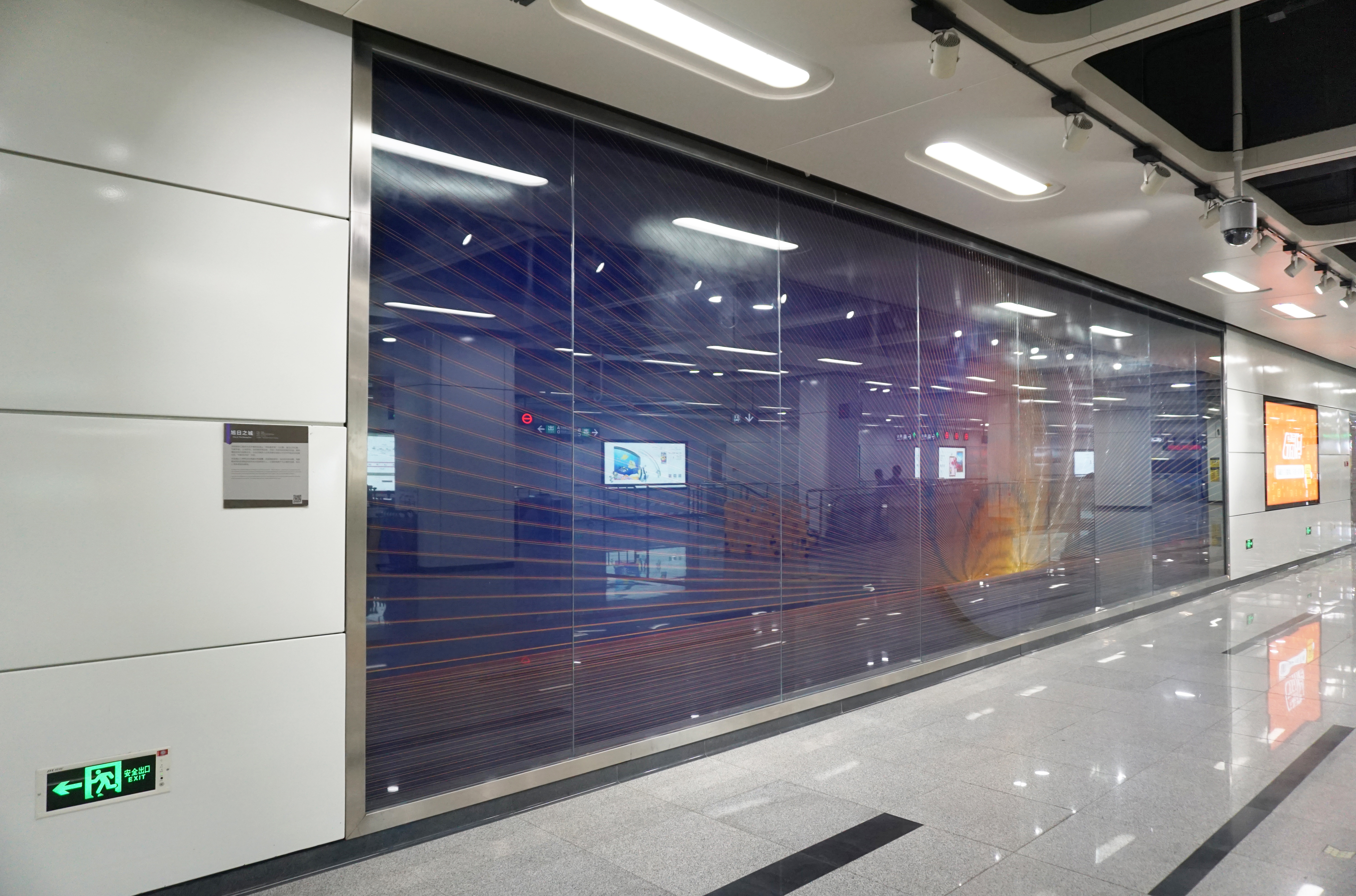 Houting Station in Shajing, Shenzhen.